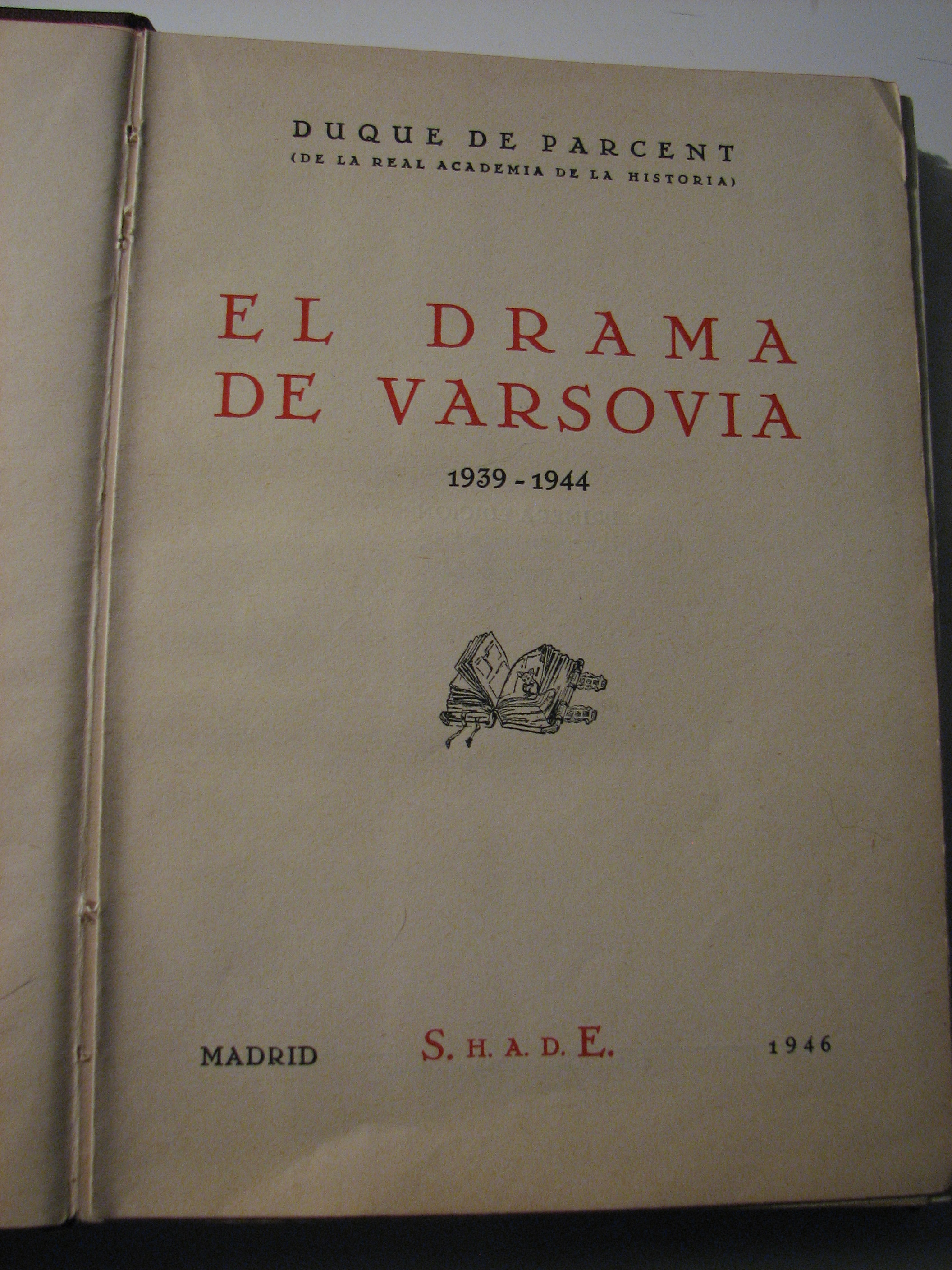 Title page of El drama de Varsovia by Duque de Parcent